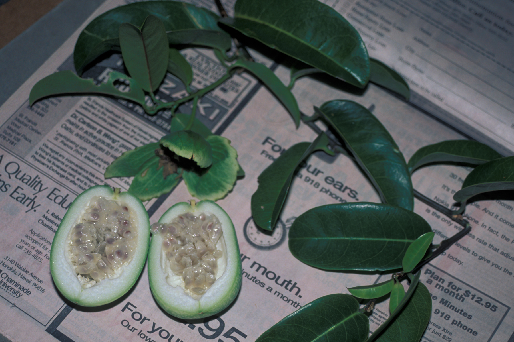 Passiflora laurifolia (with fruit). Location: Maui, Keanae